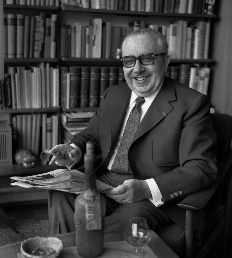 Wilhelm Reusch